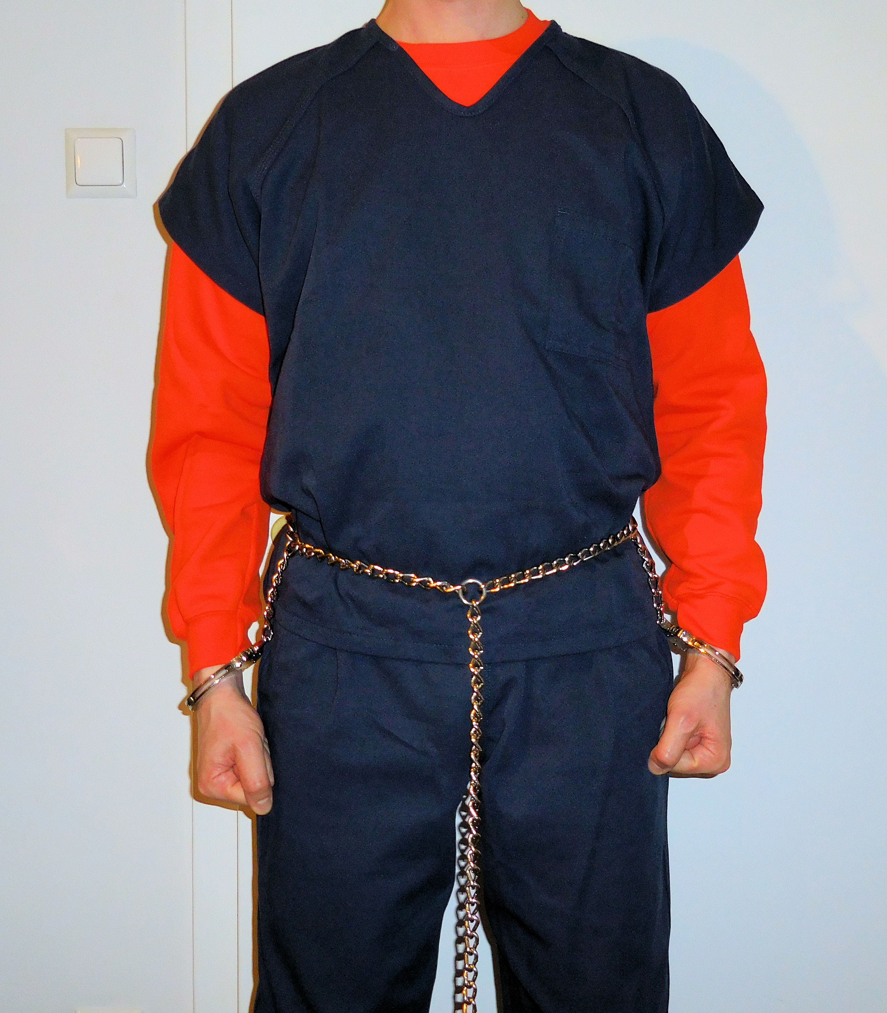 prisoner shackled with Peerless 7705 "full harness" transport restraints